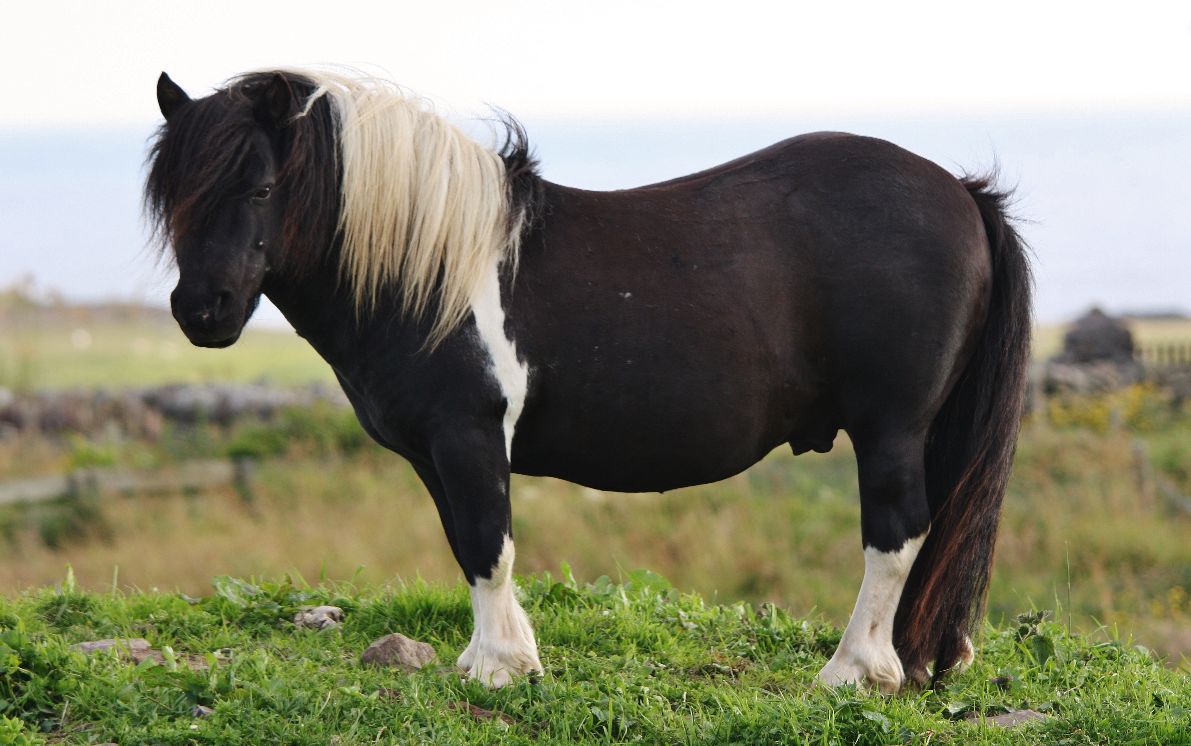 A Shetland pony in Shetland